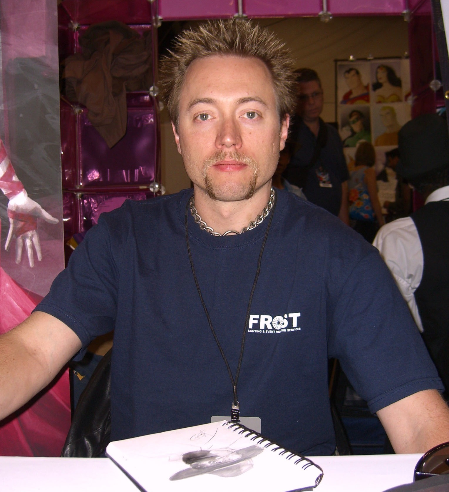 Comic book creator J.K. Woodward at the New York Comic Convention in Manhattan, October 10, 2010. This photo was created by Luigi Novi. It is not in the public domain, and use of this file outside of the licensing terms is a copyright violation.